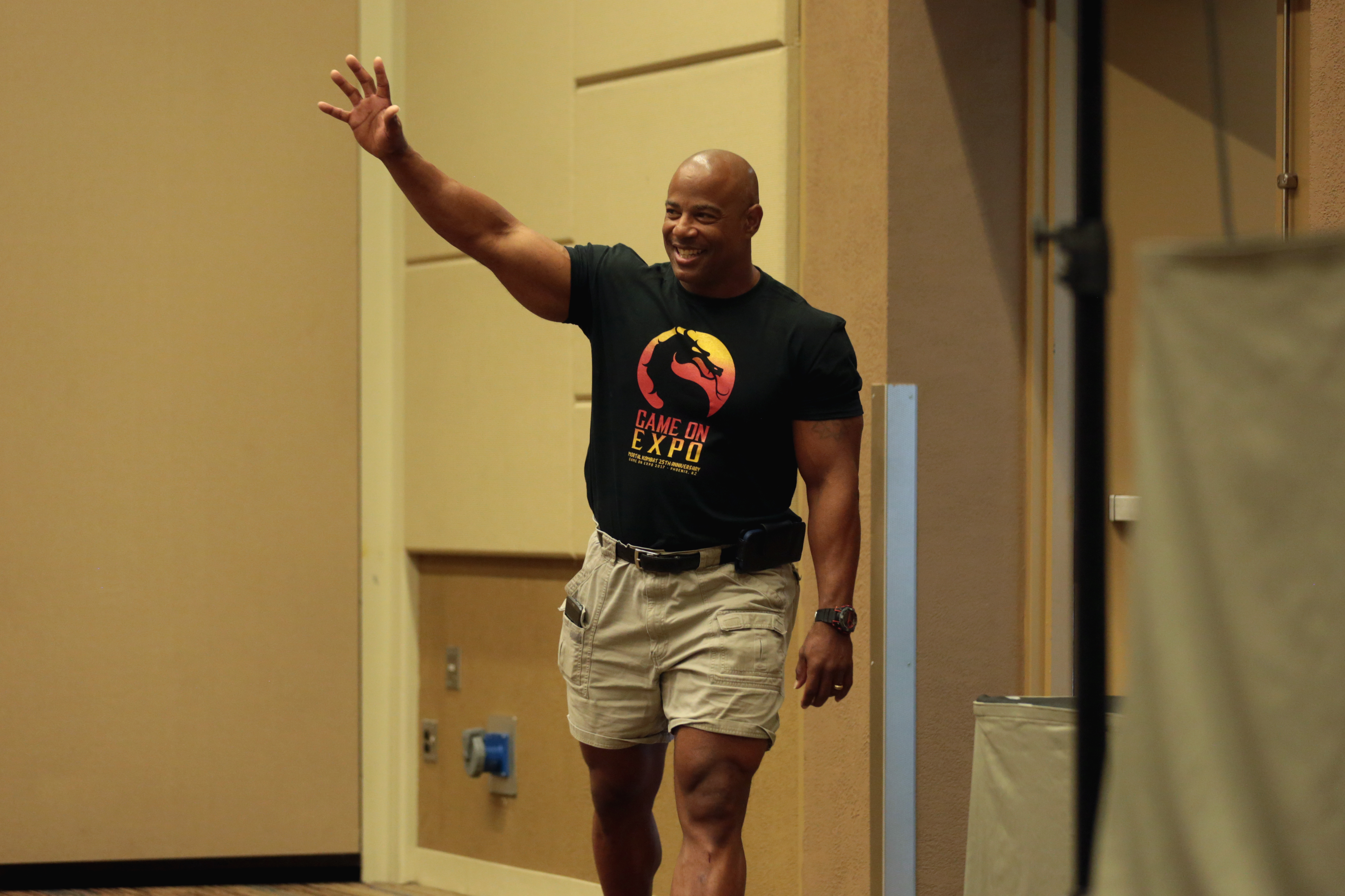 John Parrish speaking with attendees at the 2017 Game On Expo, for "Mortal Kombat 25th Anniversary Reunion", at the Phoenix Convention Center in Phoenix, Arizona.